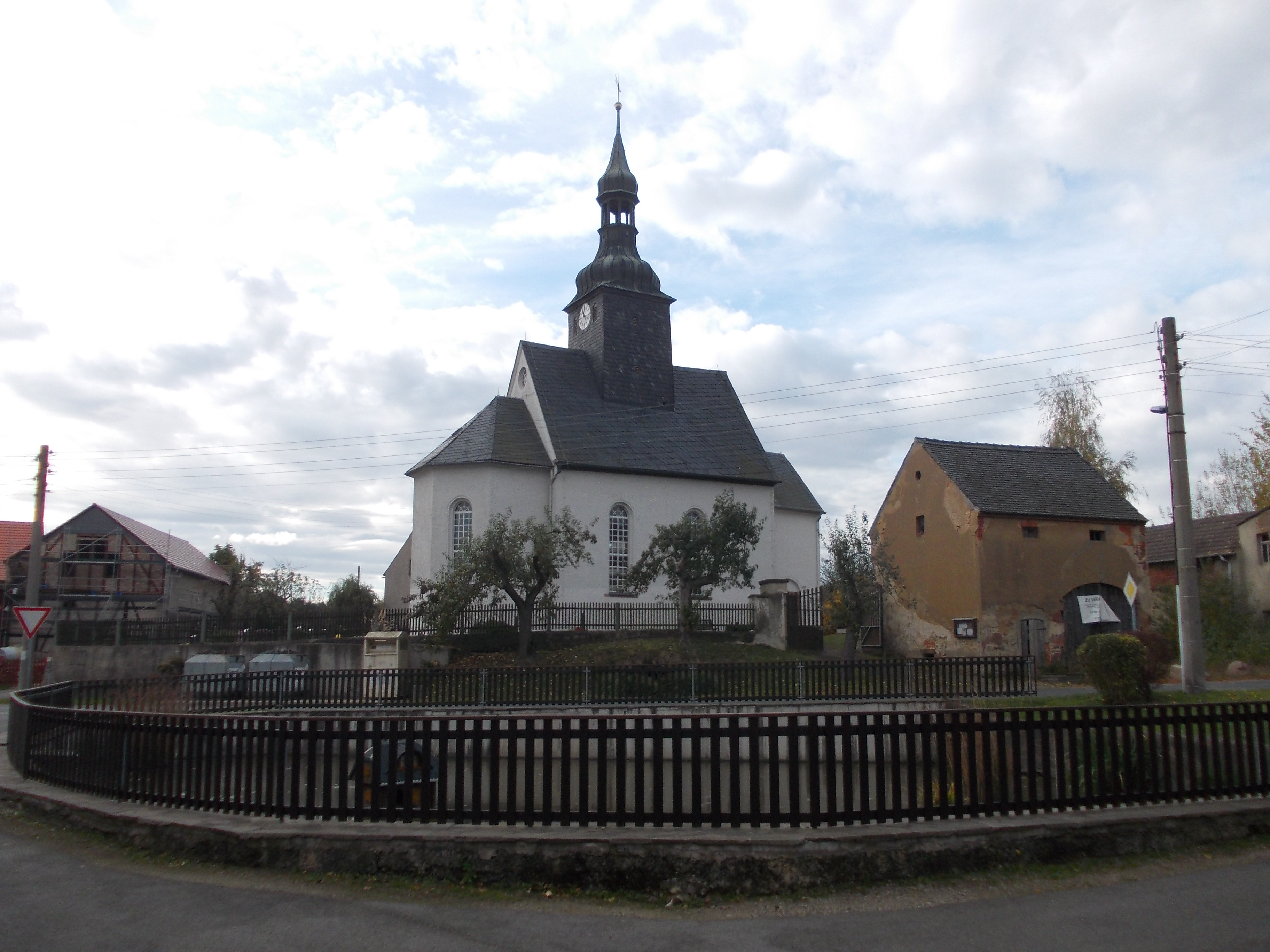 Thierbaum church (Bad Lausick, Leipzig district, Saxony)